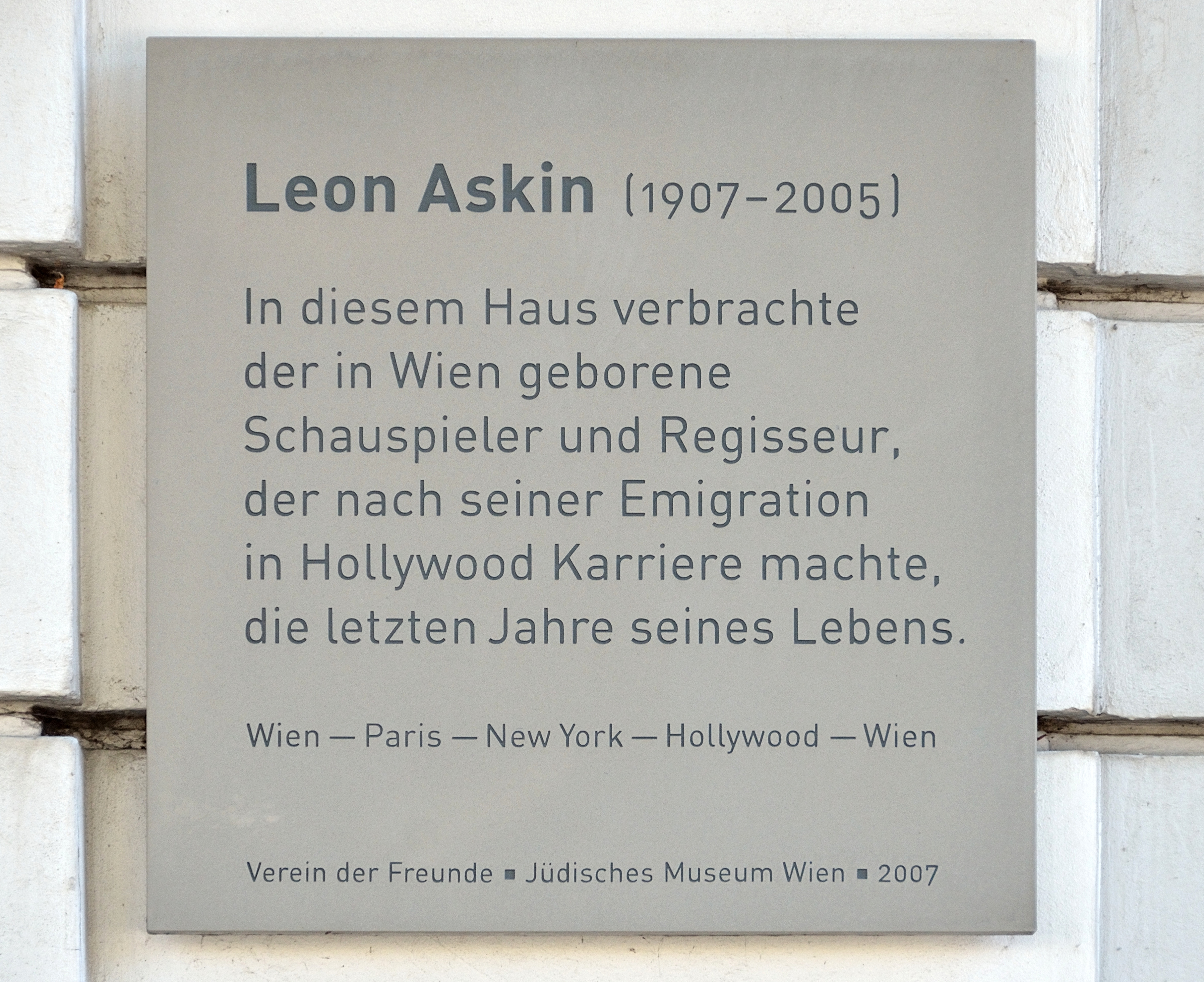 Plaque at Hütteldorfer Straße 349 for Leon Askin, who lived there.